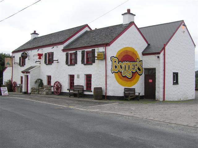 Bonner's Pub Seen when passing through Mullagh Dub